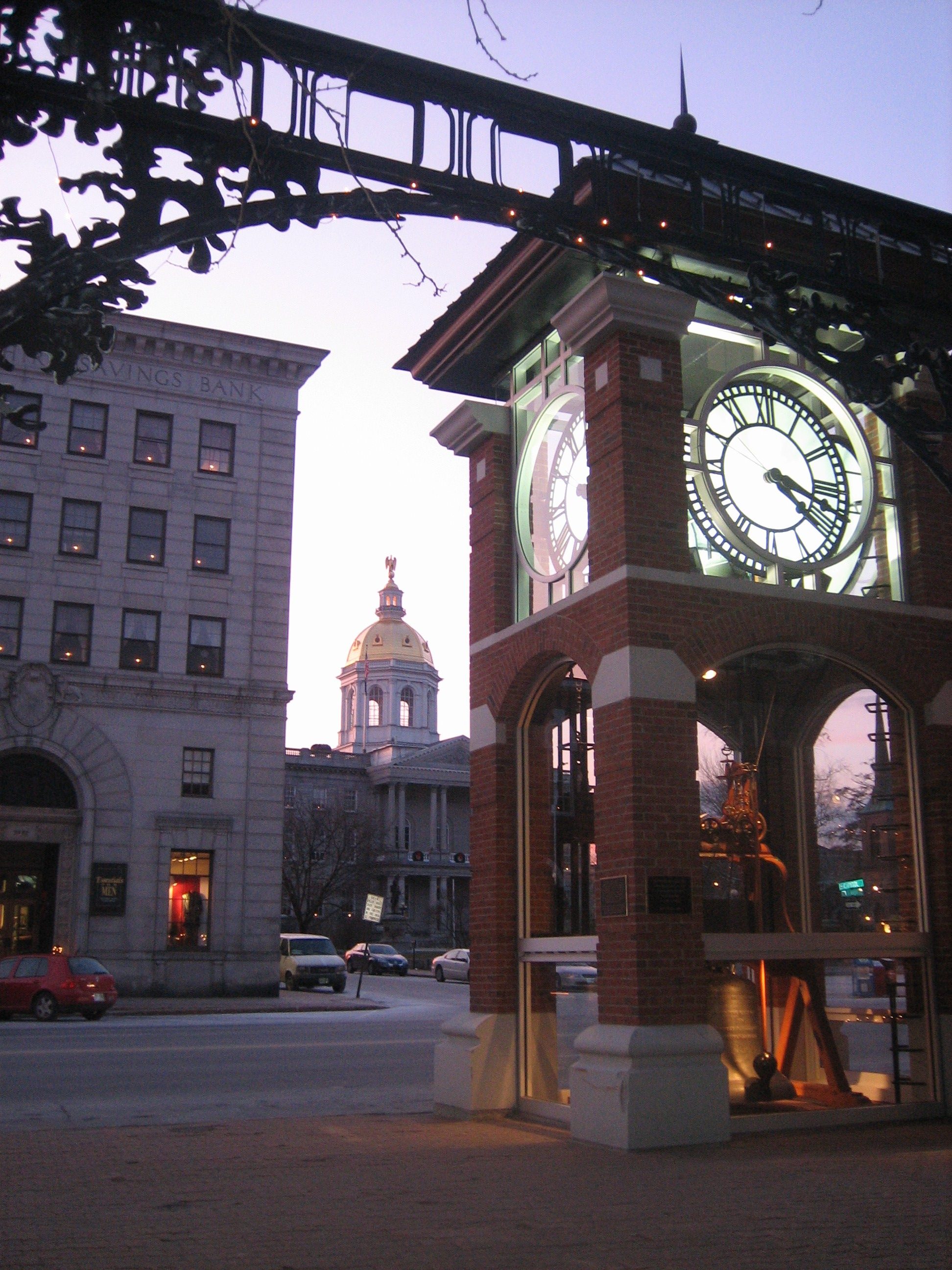 Downtown, Concord, New Hampshire